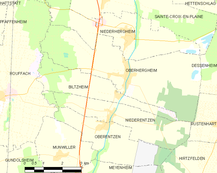 Map of French municipality